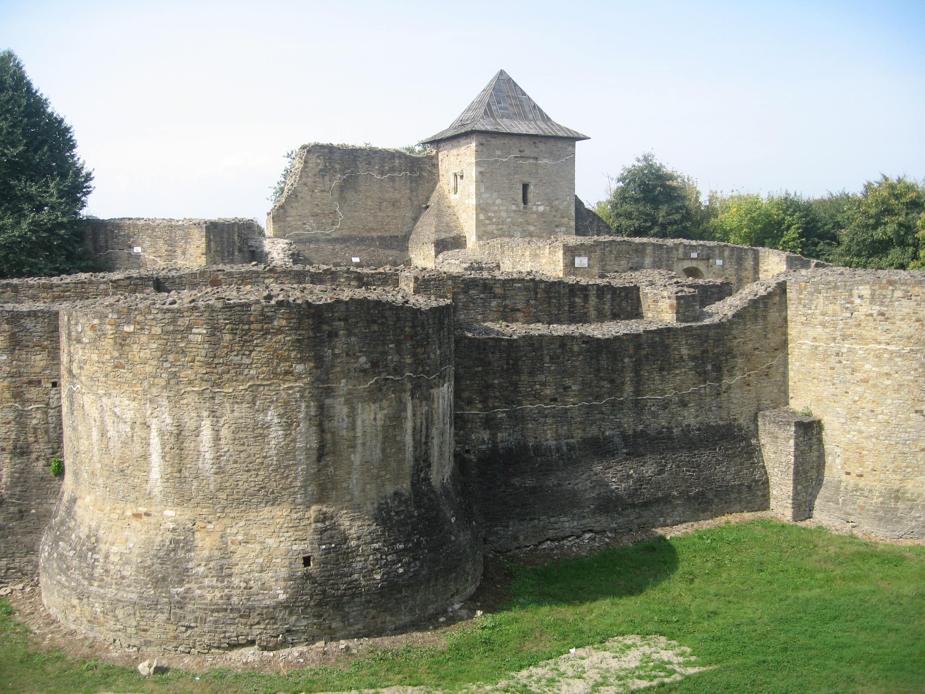 Seat Fortress of Suceava – the center part.